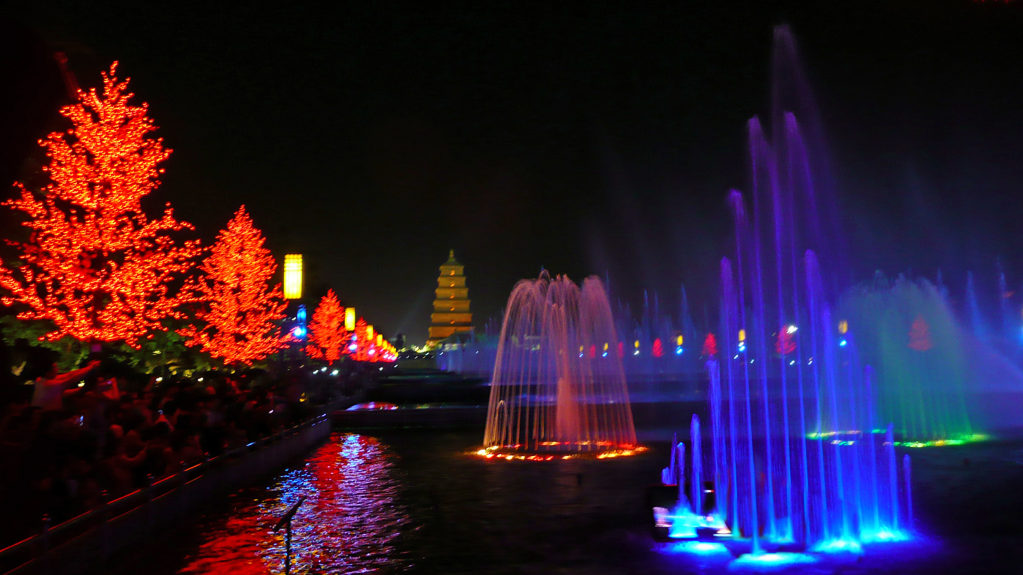 Fountain in Xi'an